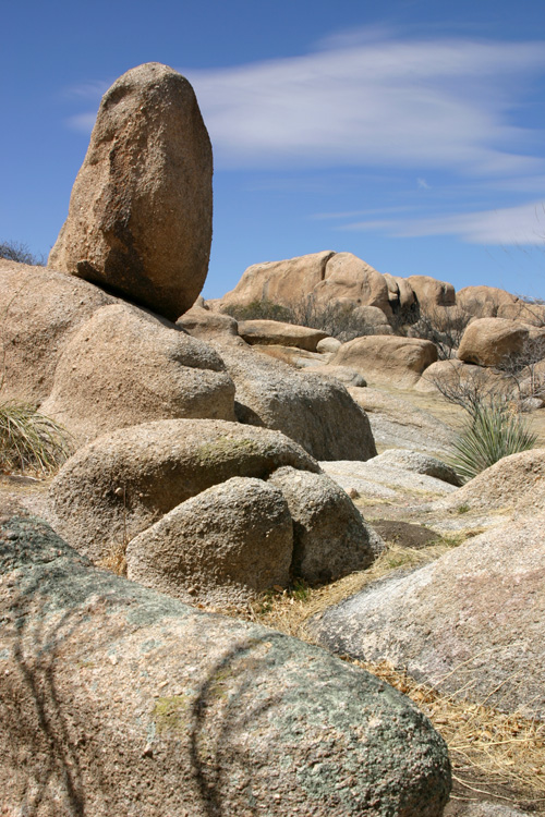 Typical Rock foormations in Texas Canyon, Arizona.